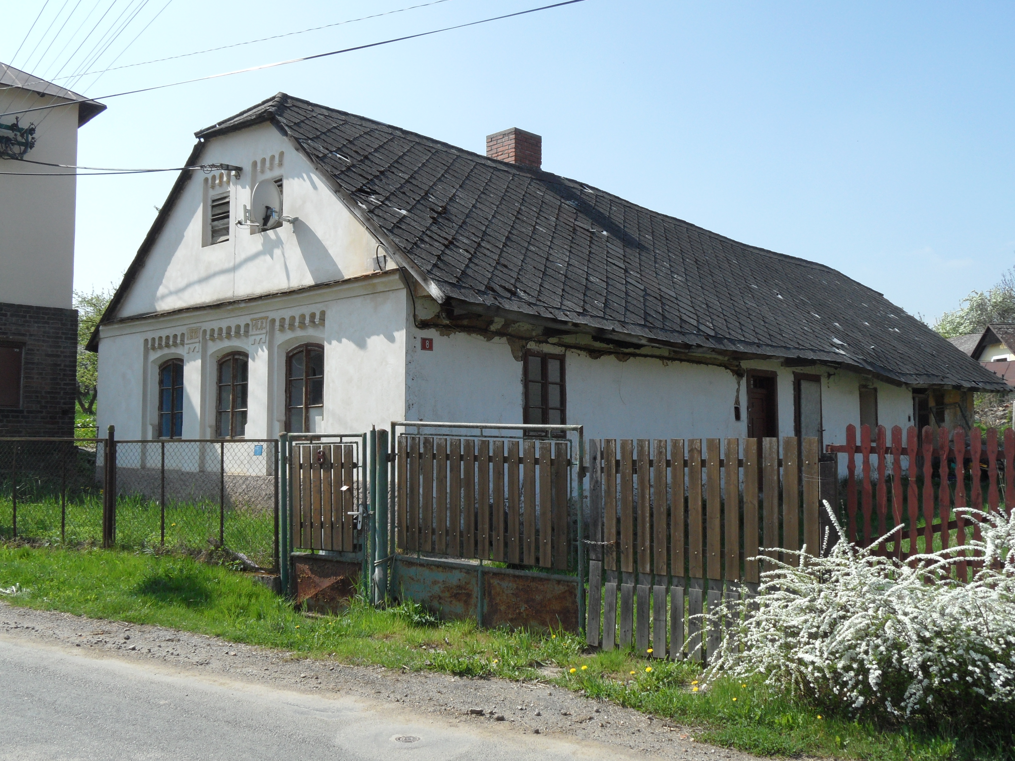 Lomec (Úmonín) A. House No. 8, Kutná Hora District, the Czech Republic.